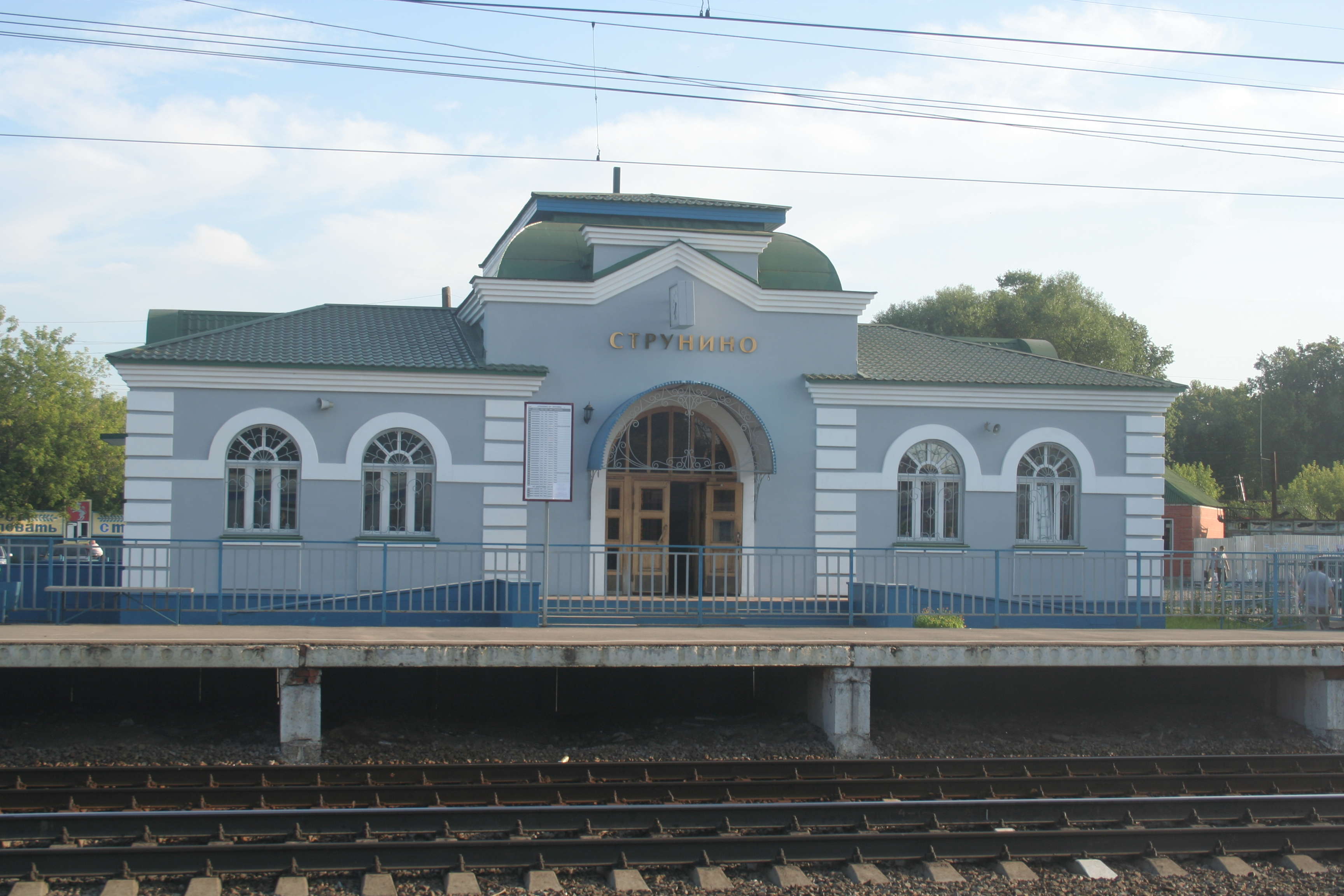 Train station in Strunino, Vladimir Oblast, Russia